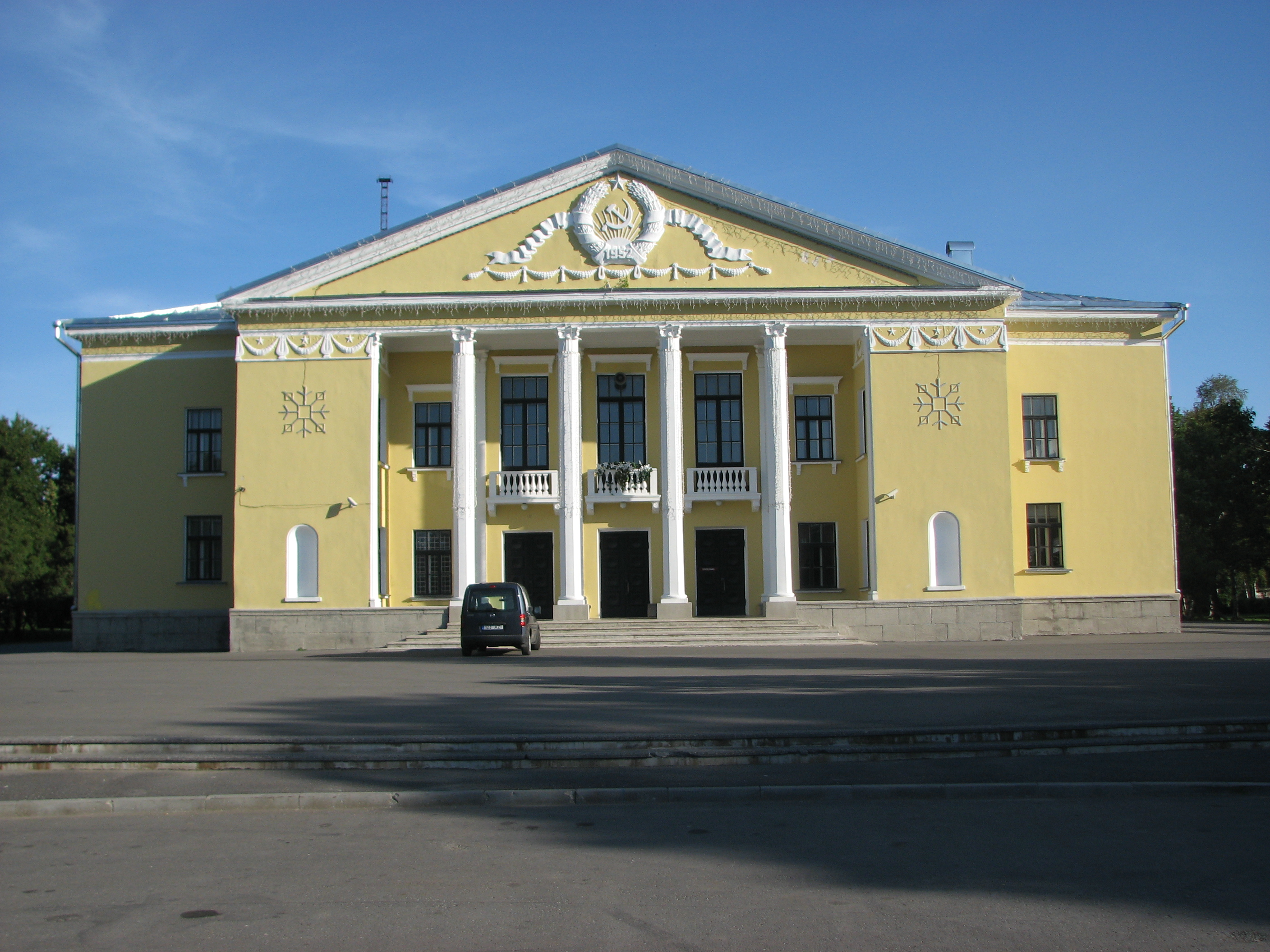 The soviet times cultural center in Kohtla-Järve, Estonia